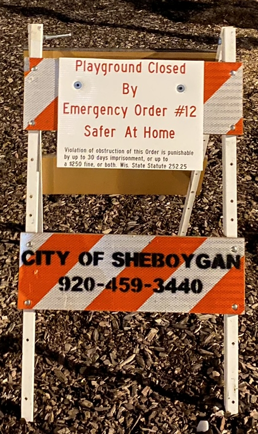 A playground in Sheboygan, Wisconsin is barricaded by a sign noting the stay at home order of Wisconsin governor Tony Evers due to the state's response to the coronavirus pandemic.